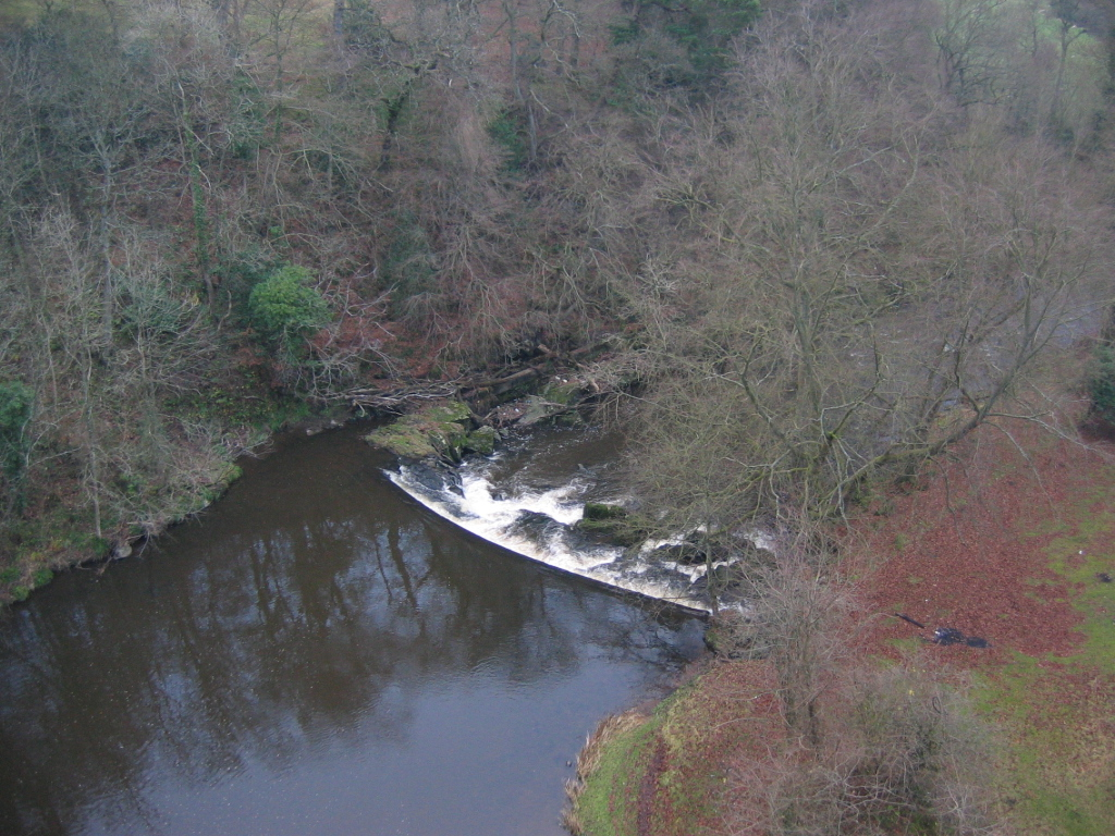 Aqueduct over the River Avon, Falkirk, Scotland